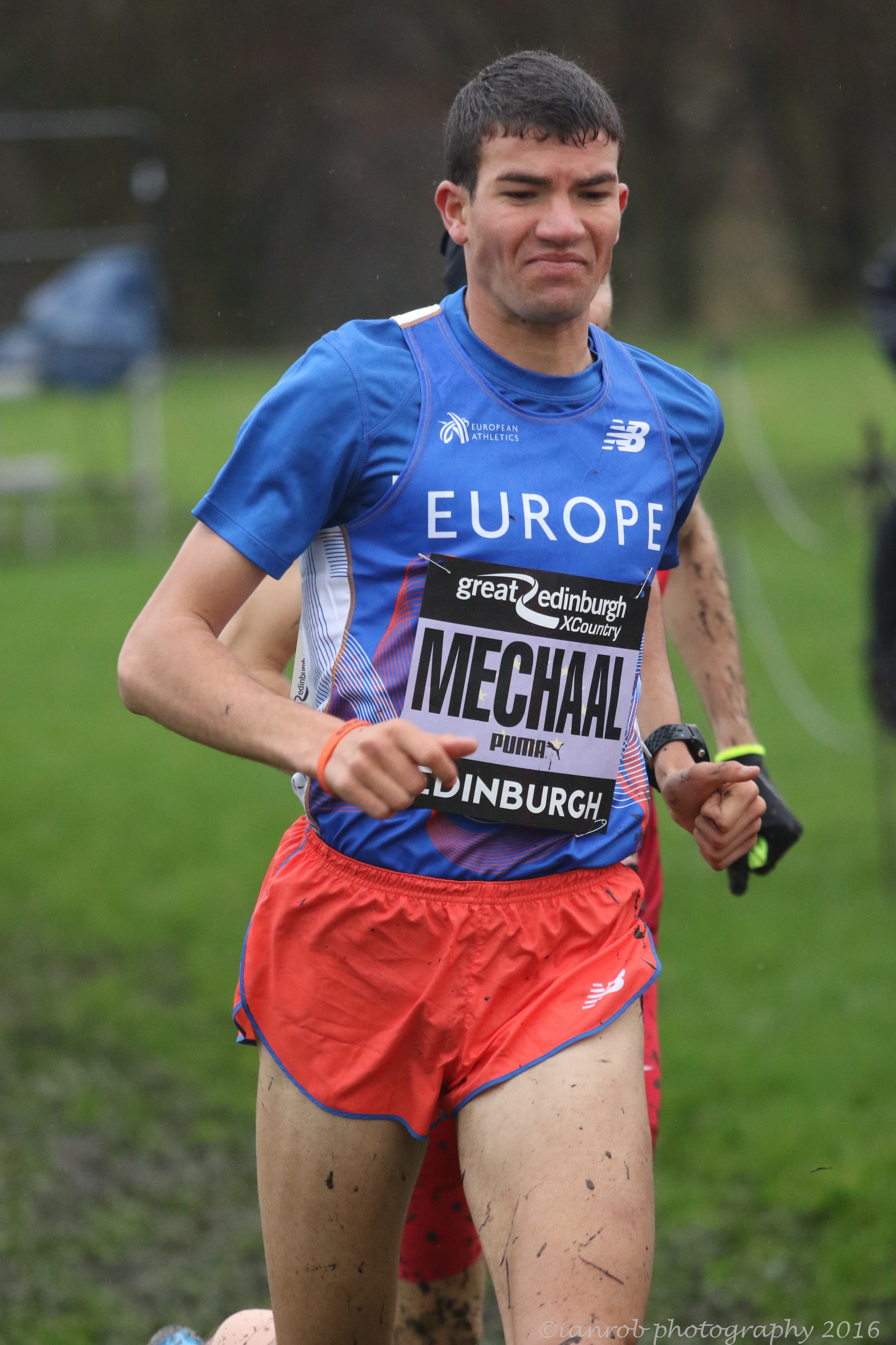 Great Edinburgh International Cross Country 2016 – Senior Men's 8 km